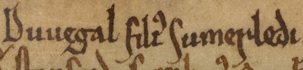 An excerpt from folio 16v of British Library MS Domitian A VII (Durham Liber vitae) showing the name of Dubgall mac Somairle (died 1175×).